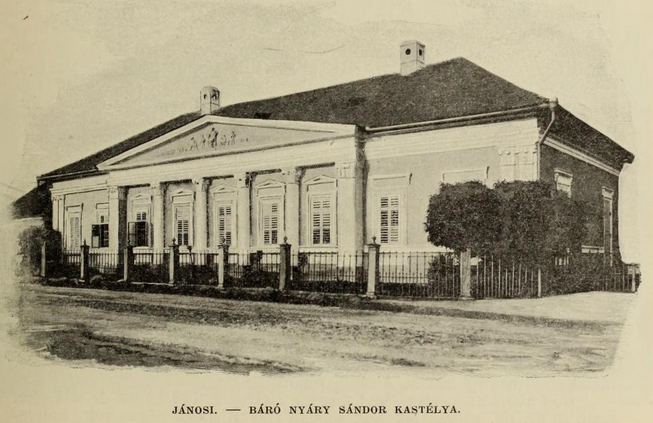 Mansion in Jánosi